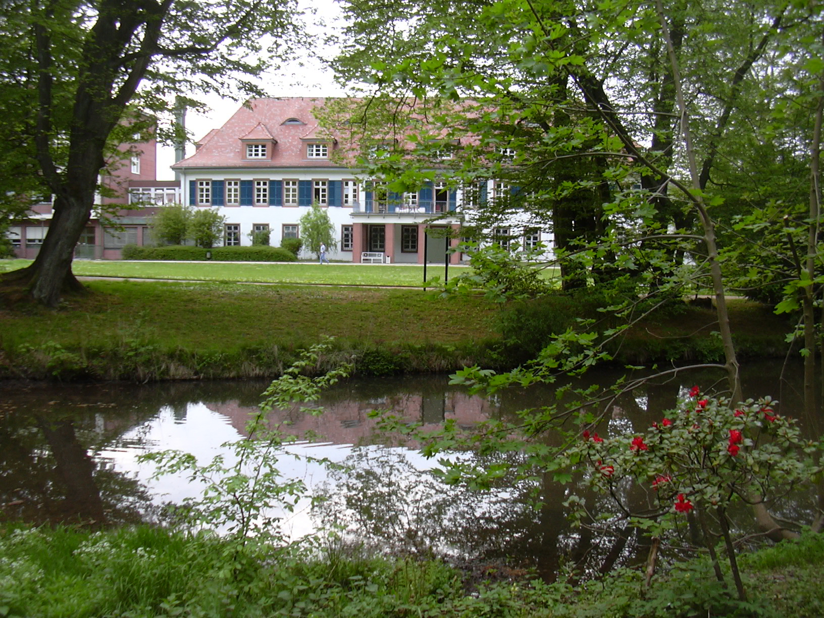 Alzenau-Wasserlos, palace (now city hospital)